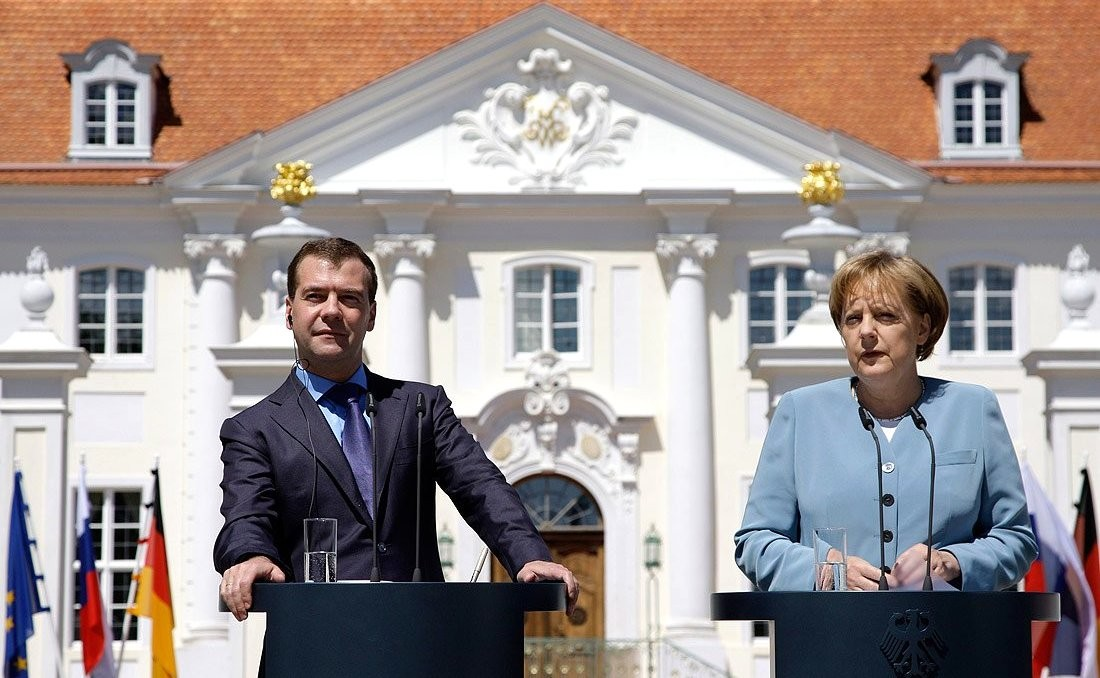 Joint news conference with Federal Chancellor Angela Merkel following Russian-German summit talks.